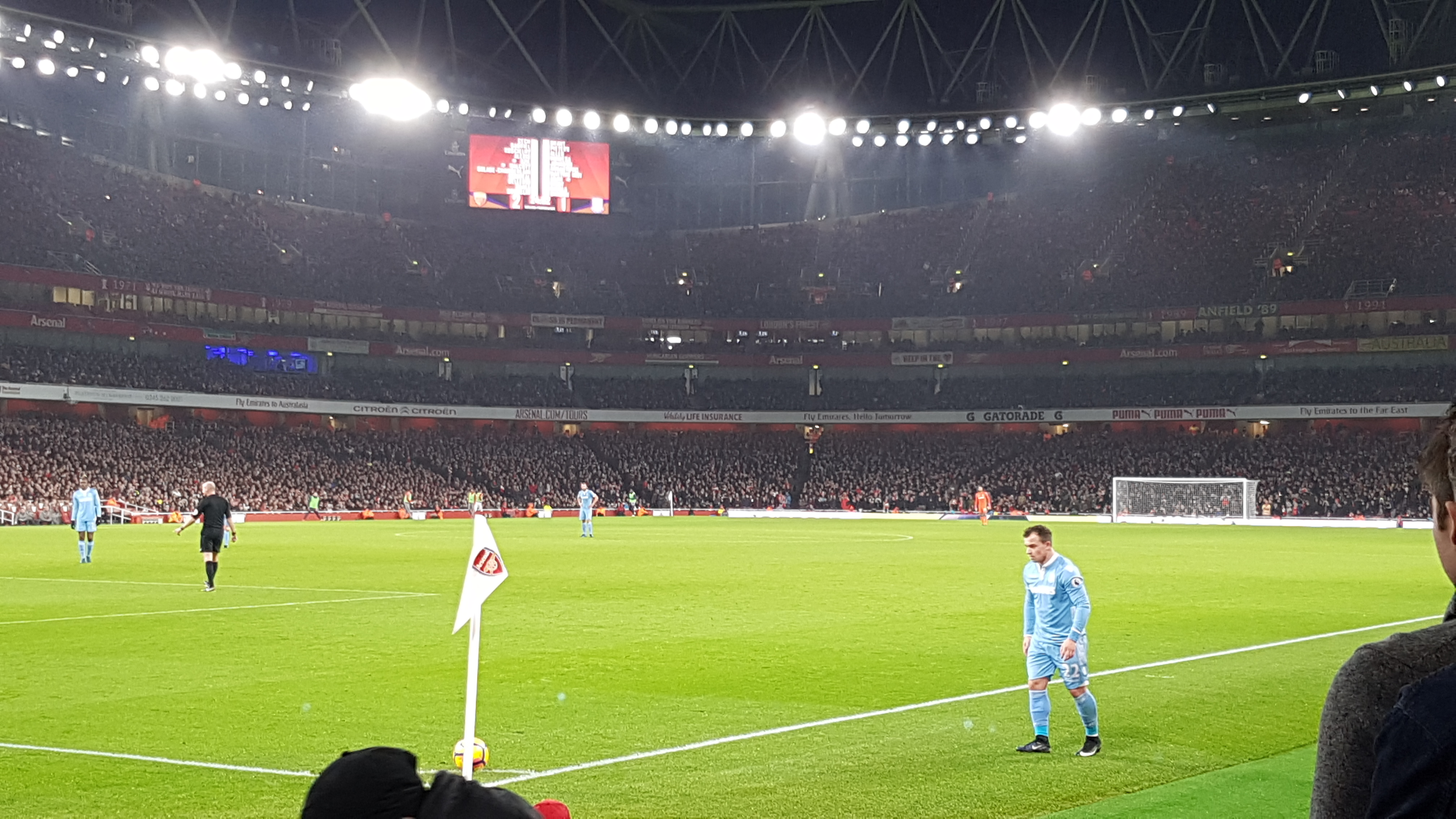 Xherdan Shaqiri taking a corner for Stoke City during the Arsenal v Stoke City game on the 10th of December 2016.